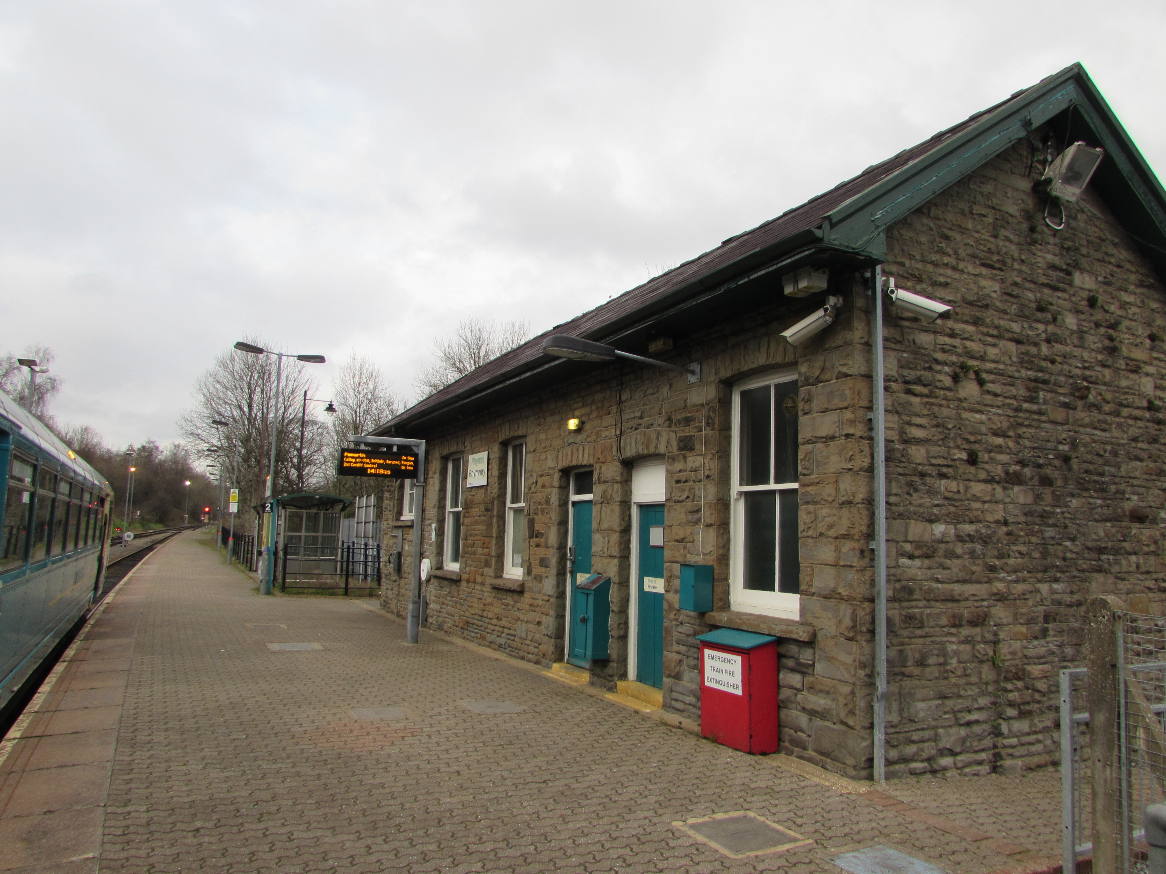 Stone building on Rhymney railway station